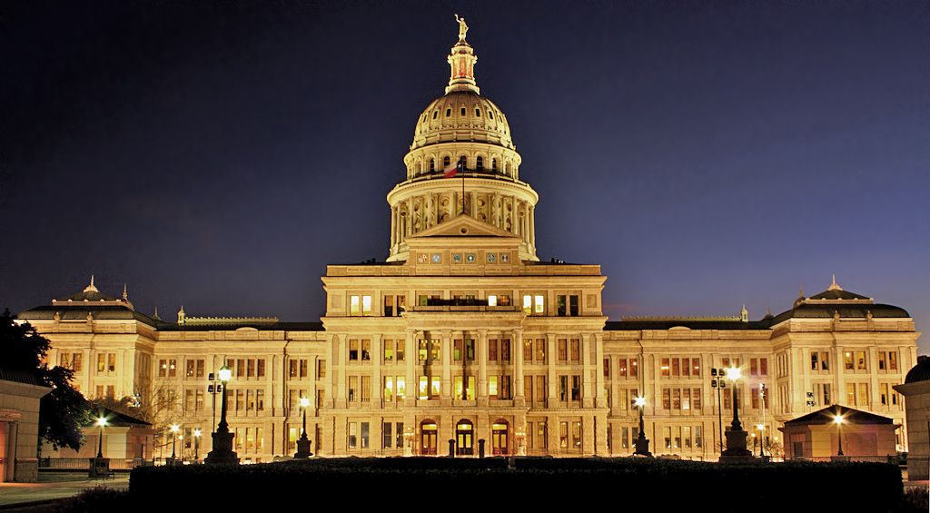 Texas State Capitol: North side by night